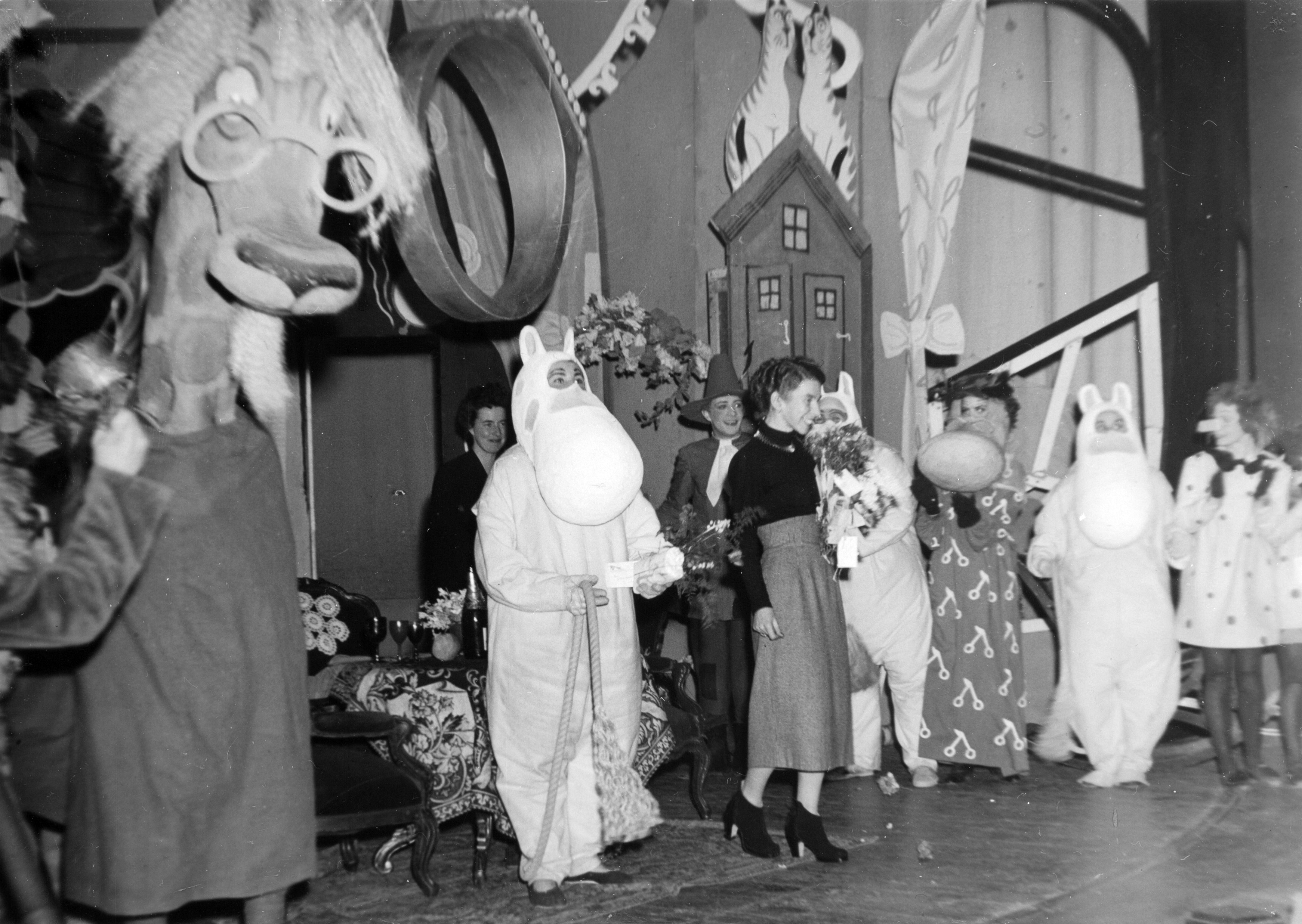 Photograph of the première of the stage play Mumintrollet och kometen by Tove Jansson, performed at Svenska Teatern in Helsinki (Helsingfors).